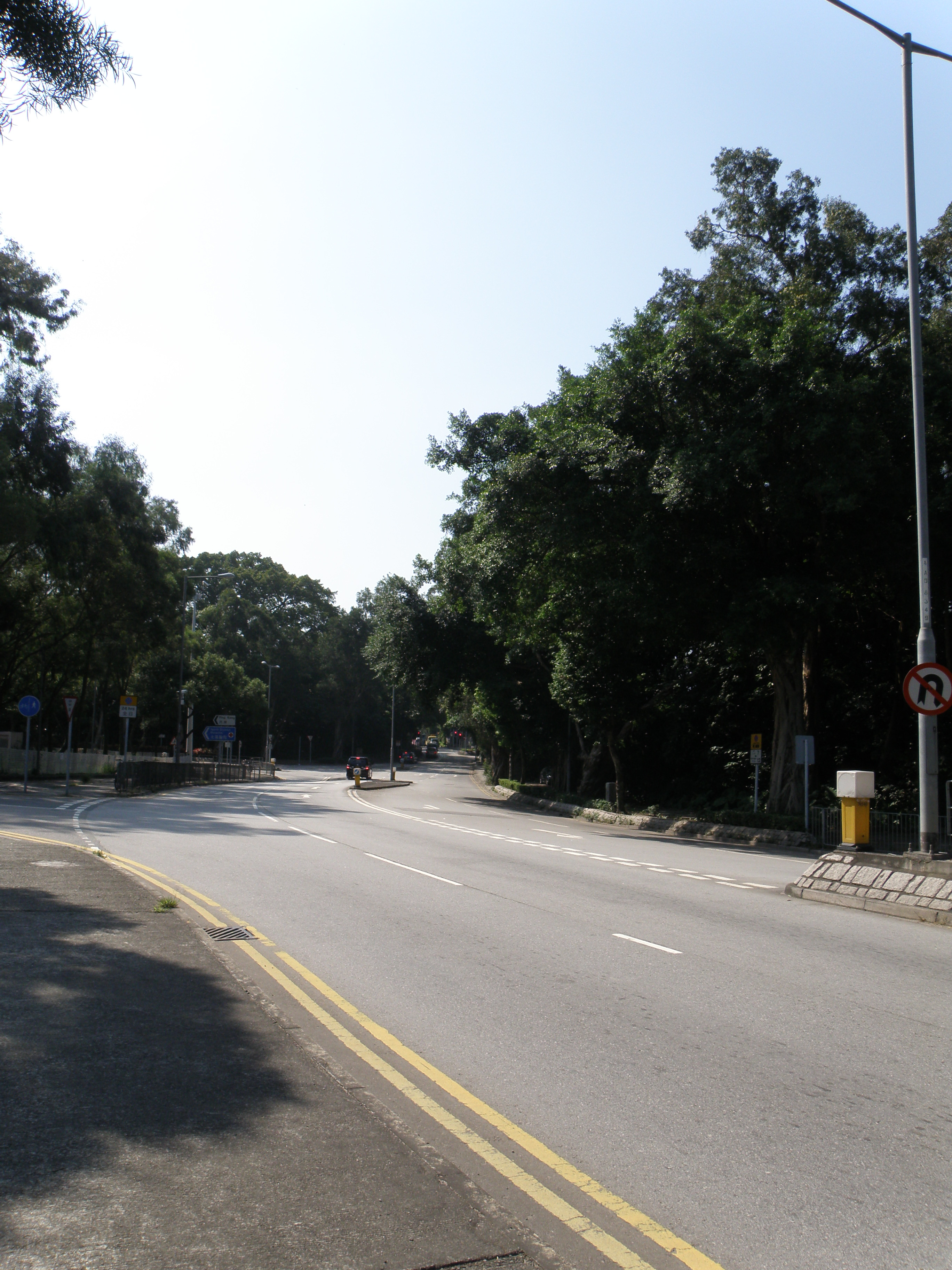 Fan Kam Road Sheung Shui section, Hong Kong.